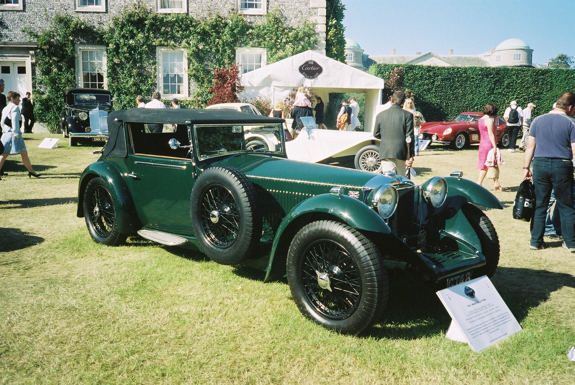 Invicta S-type automobile from 1931, once the property of the German spy Baron von Treeck (DVLA) first registered 1 October 1931, 4410cc